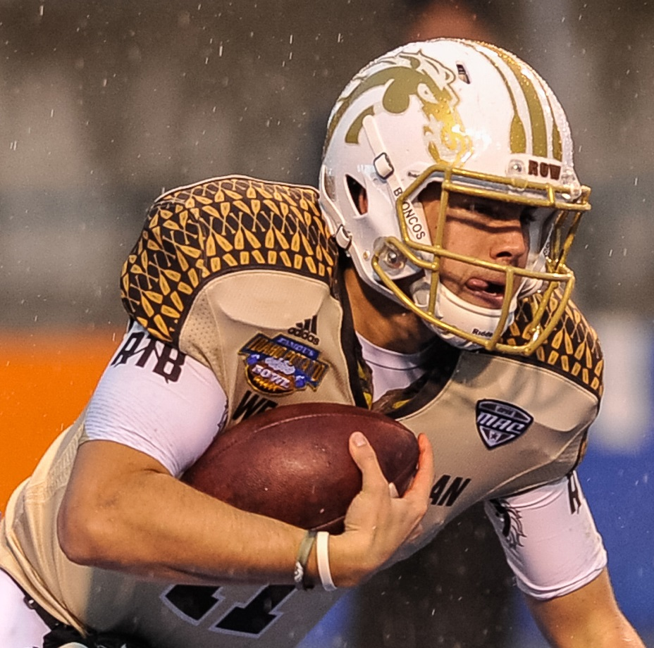 (Description from original) Air Force senior linebacker Jordan Pierce sacks Western Michigan quarterback Zach Terrell in the first half of the Famous Idaho Potato Bowl Dec. 20, 2014. Pierce, a native of Athens, Ga., had two sacks for 11 yards in the Falcons' 38-24 victory.